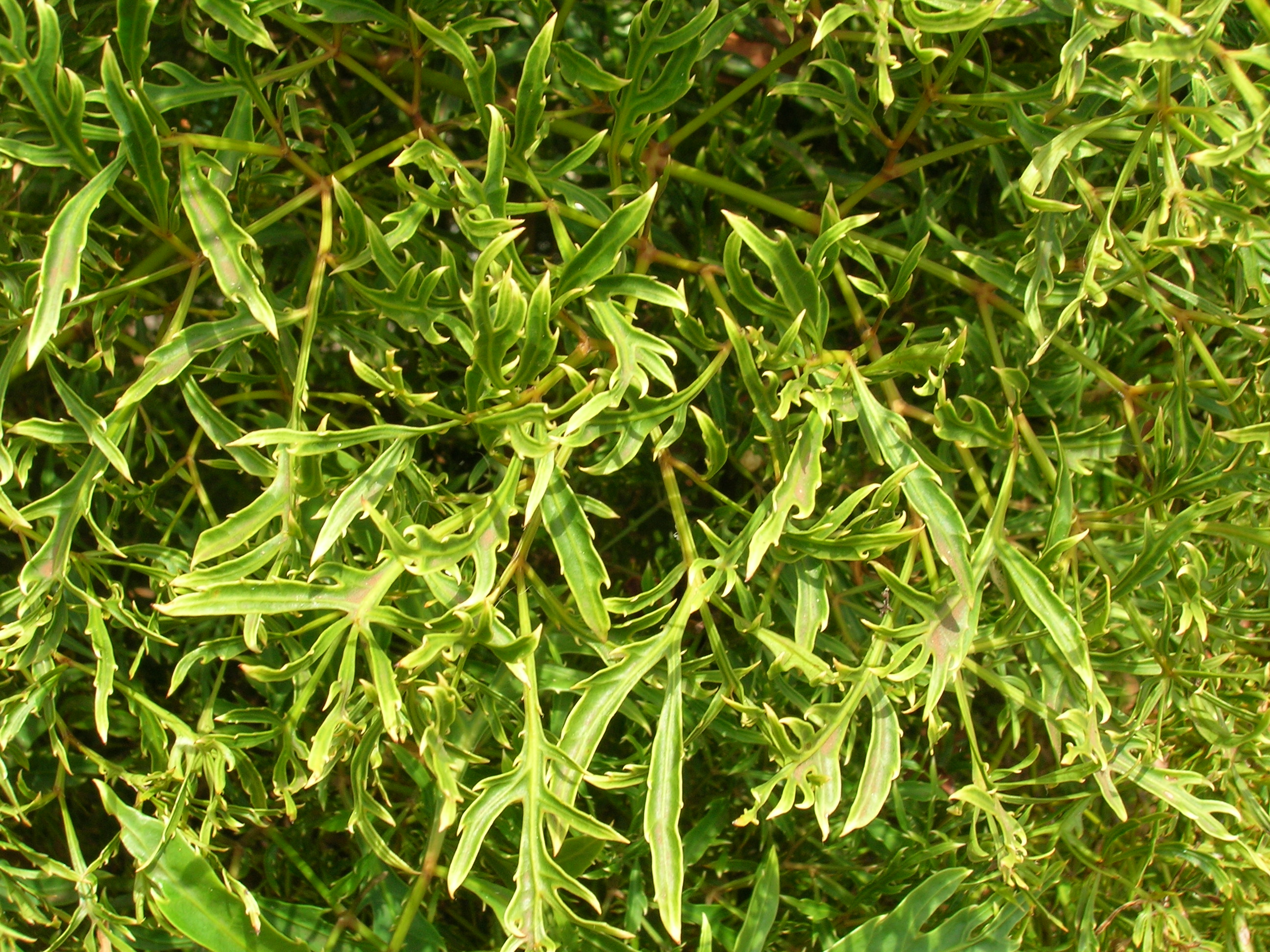 Polyscias fruticosa (leaves). Location: Maui, Makawao